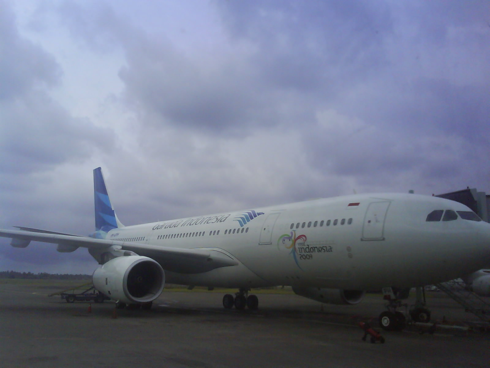 Garuda Airbus A330-200 in the new livery